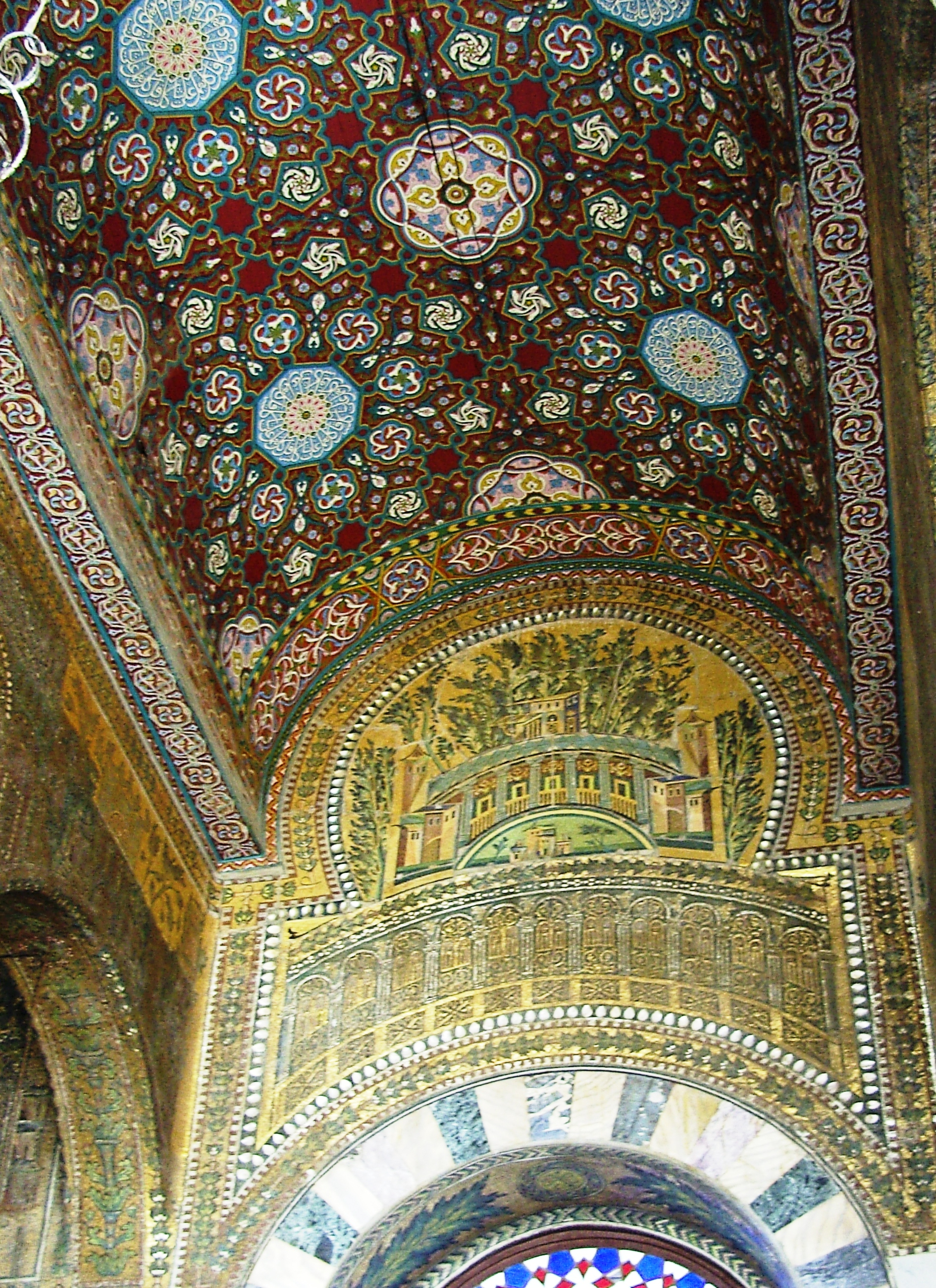 Painted ceiling inside the Umayyad Mosque, Damascus in December 2009.